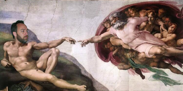 The Creation of Jimbo (with apologies to Michaelangelo) Composited from Image:5. urodziny polskiej Wikipedii - Jimbo Wales 02.JPG by Lestat and Image:God2-Sistine Chapel.png By ChrisO